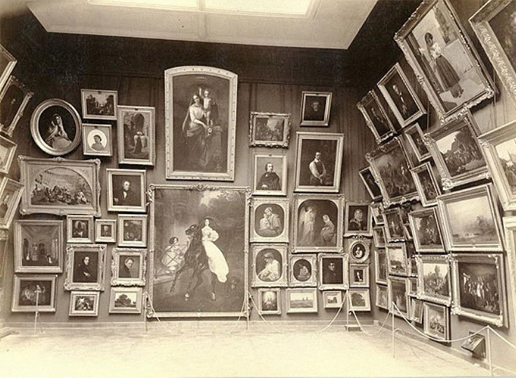 Tretyakov Gallery exhibition (photo by Karl Fischer, 1898)